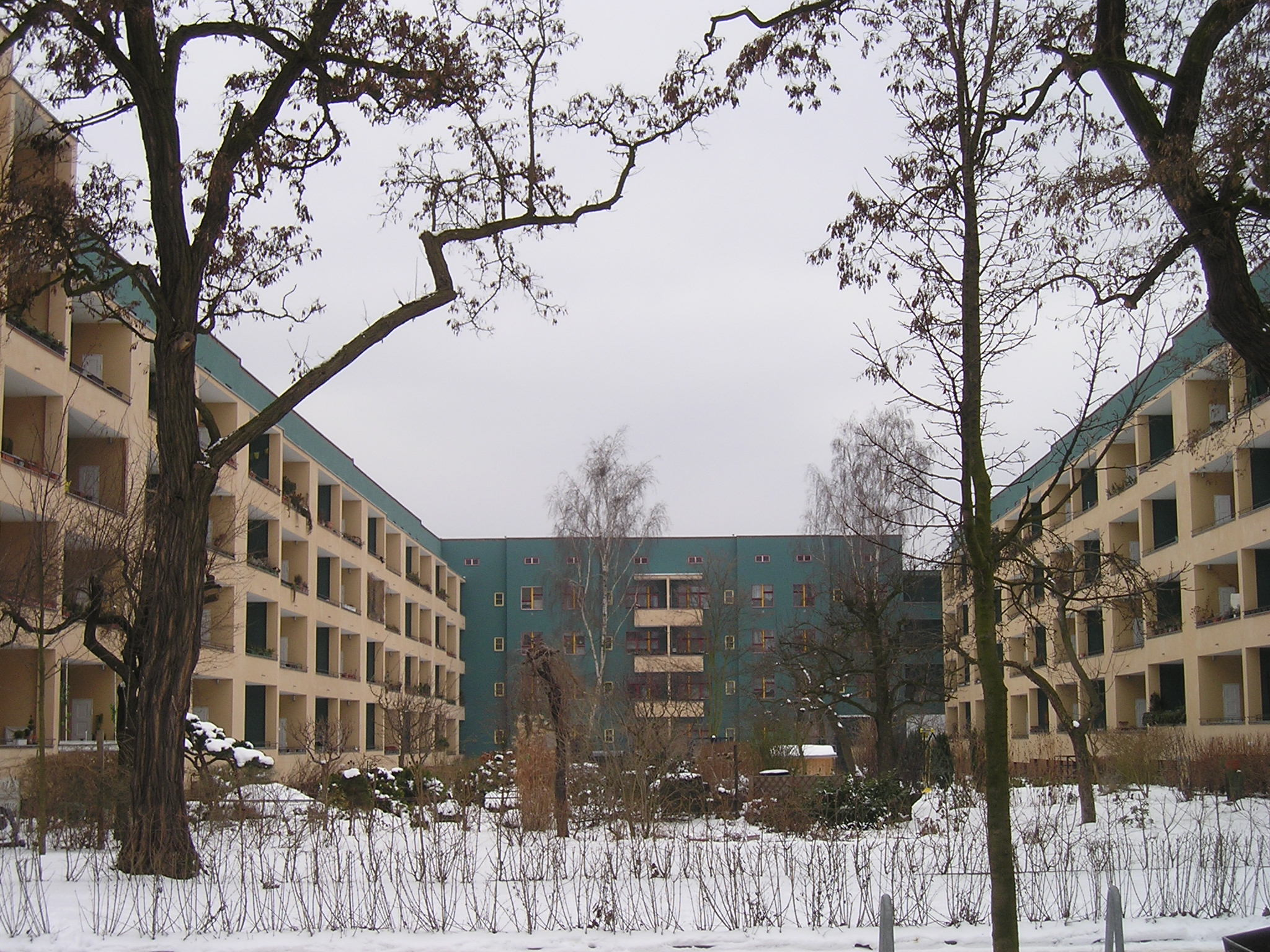 Carl Legien housing estate in Berlin-Prenzlauer Berg.